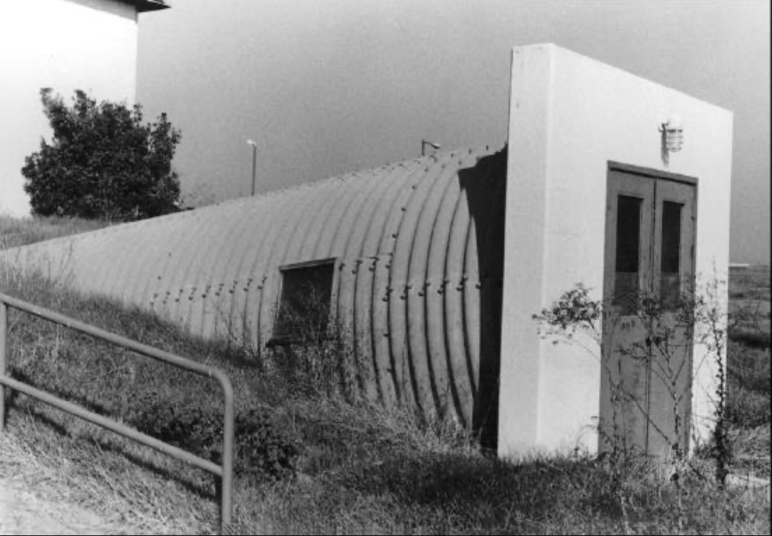 Tunnel egress for the molehole at the former Castle Air Force Base